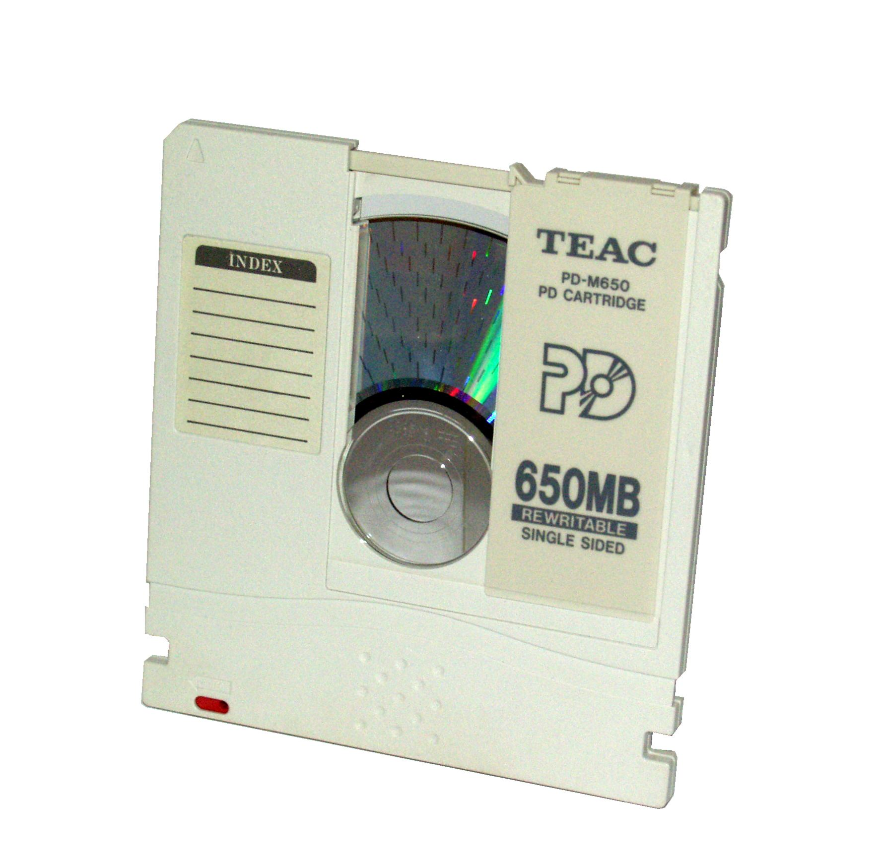 TEAC PD-M650. Picture taken by ocrho.